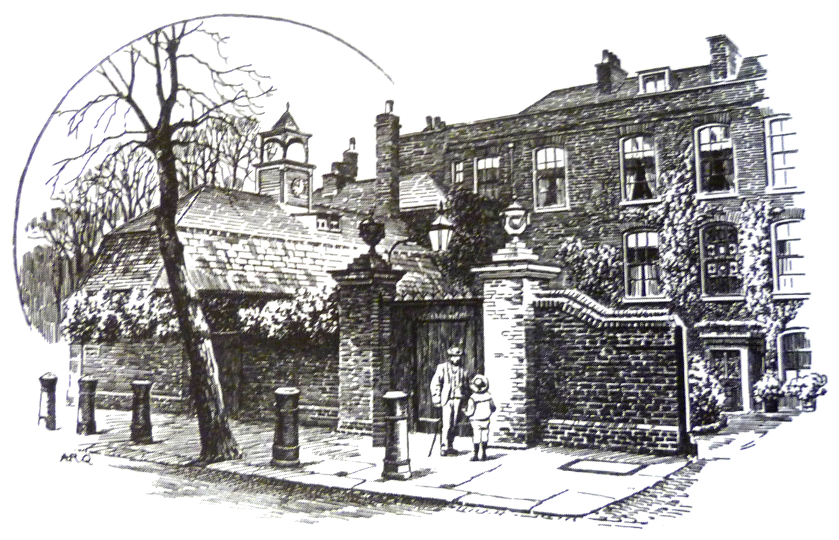 A.R. Quinton illustration (1911) in The Hampstead Book, Steven Denford, 2009, p. .